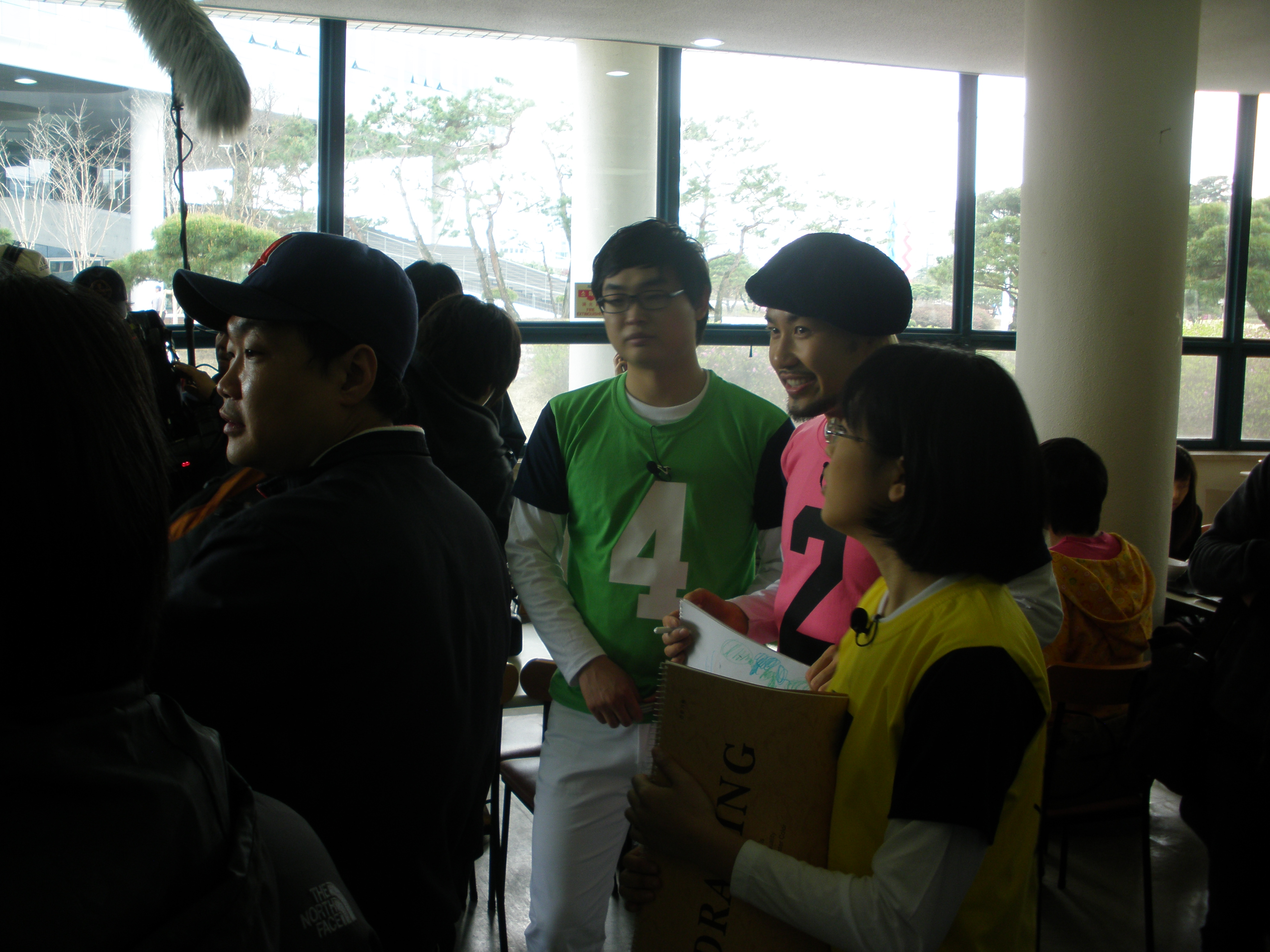 Noh Hong-cheol, along with other Korean media personalities, is in the filming of new television program for Korean Broadcasting System. Taken at KAIST Daejeon campus.